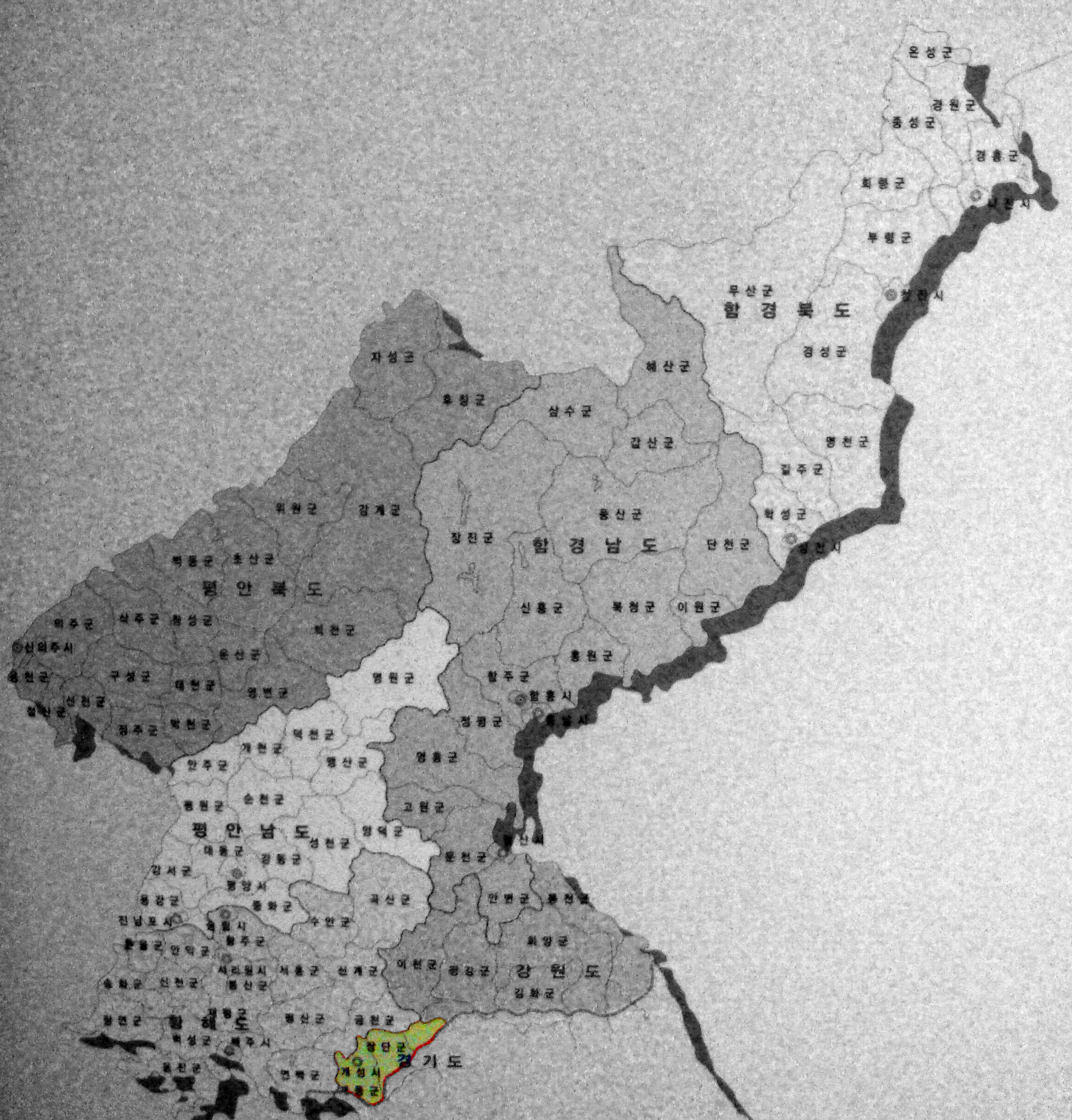 Locator map of Kyŏnggi-do province of ROK (including regions which are de-facto under North Korean control, highlighted)